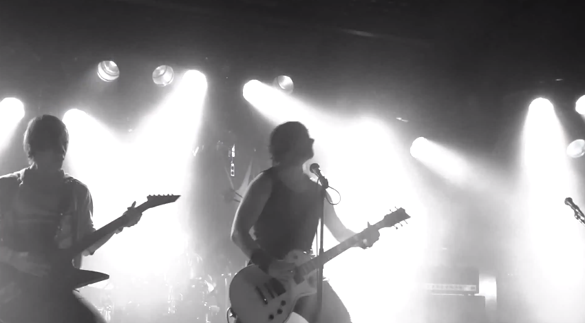 Tonic Breed playing at Global Battle of the Bands, Kuala Lumpur, March 2012.